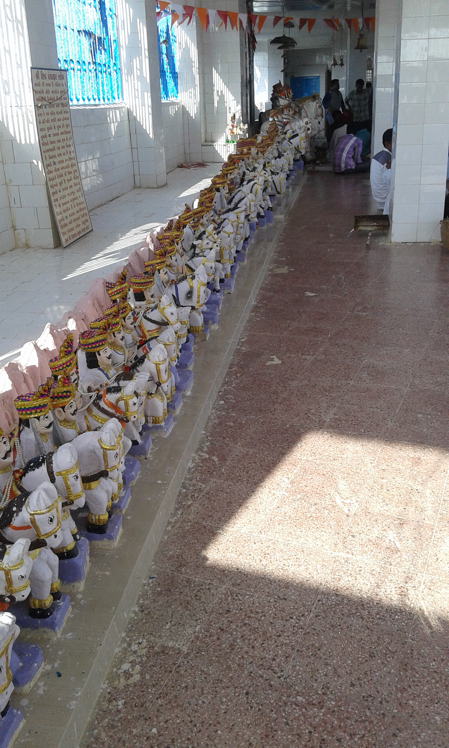 Jakh Bahotera are group of folk deities worshiped in Kutch region of Gujarat, India. Image of their idols is taken at temple at Kakadbhit (Mota Yaksh) near Nakhtrana, near Bhuj, Kutch, Gujarat, India.